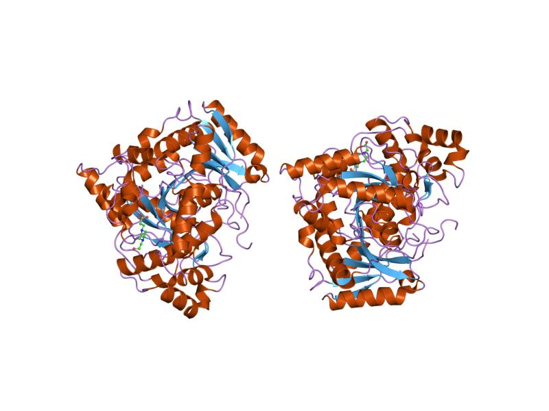 Cartoon representation of the molecular structure of protein registered with 1m22 code.